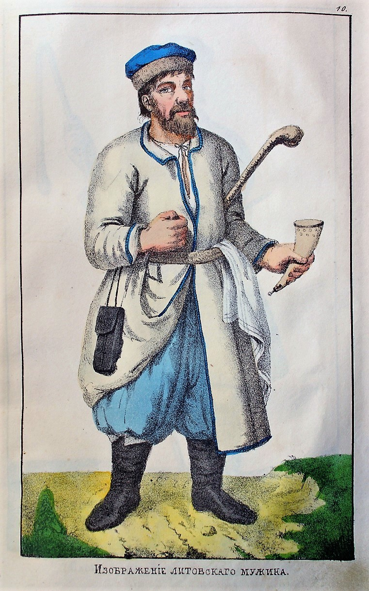 Man from Lithuania (modern Belarus)